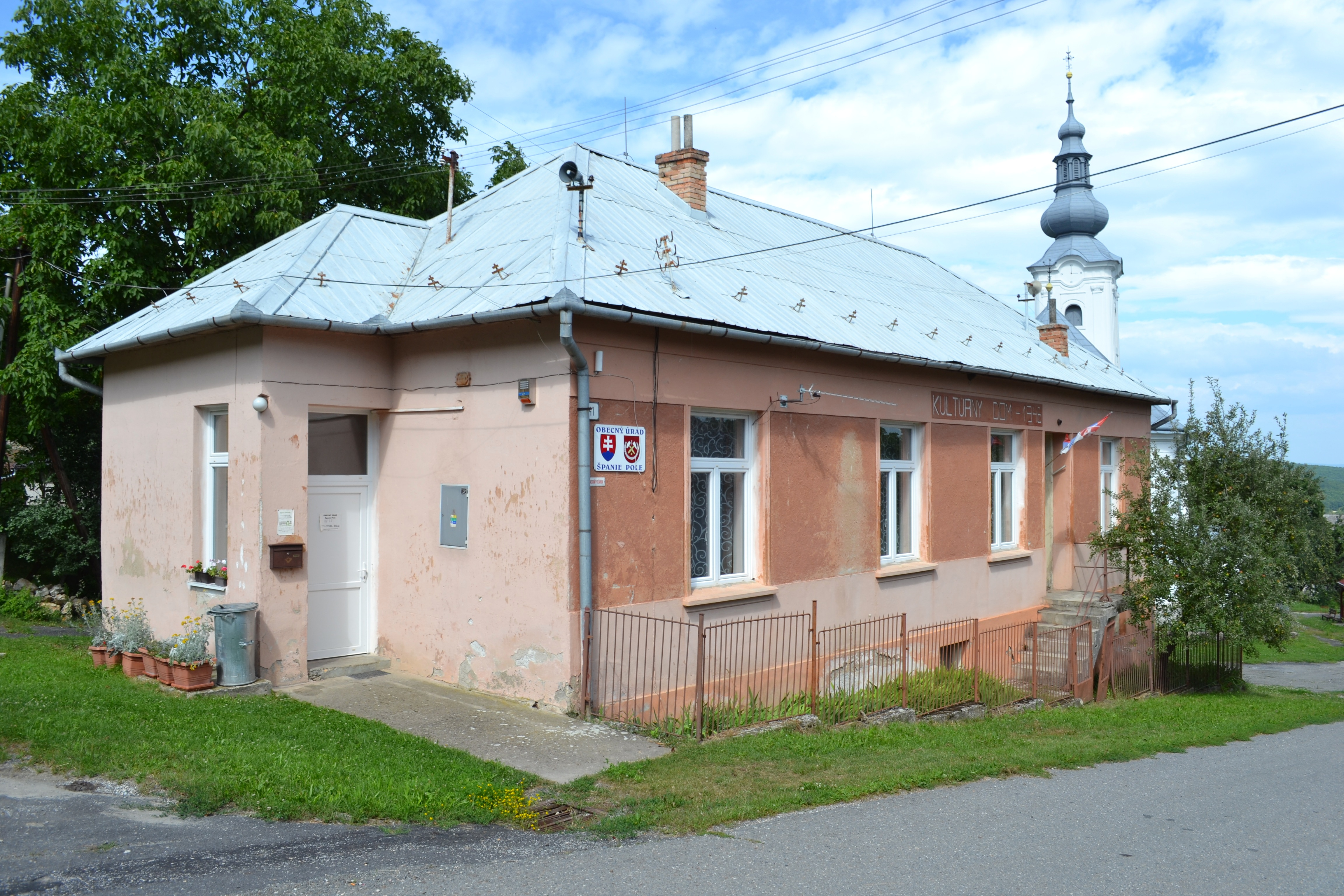 Municipal office in the village Španie Pole